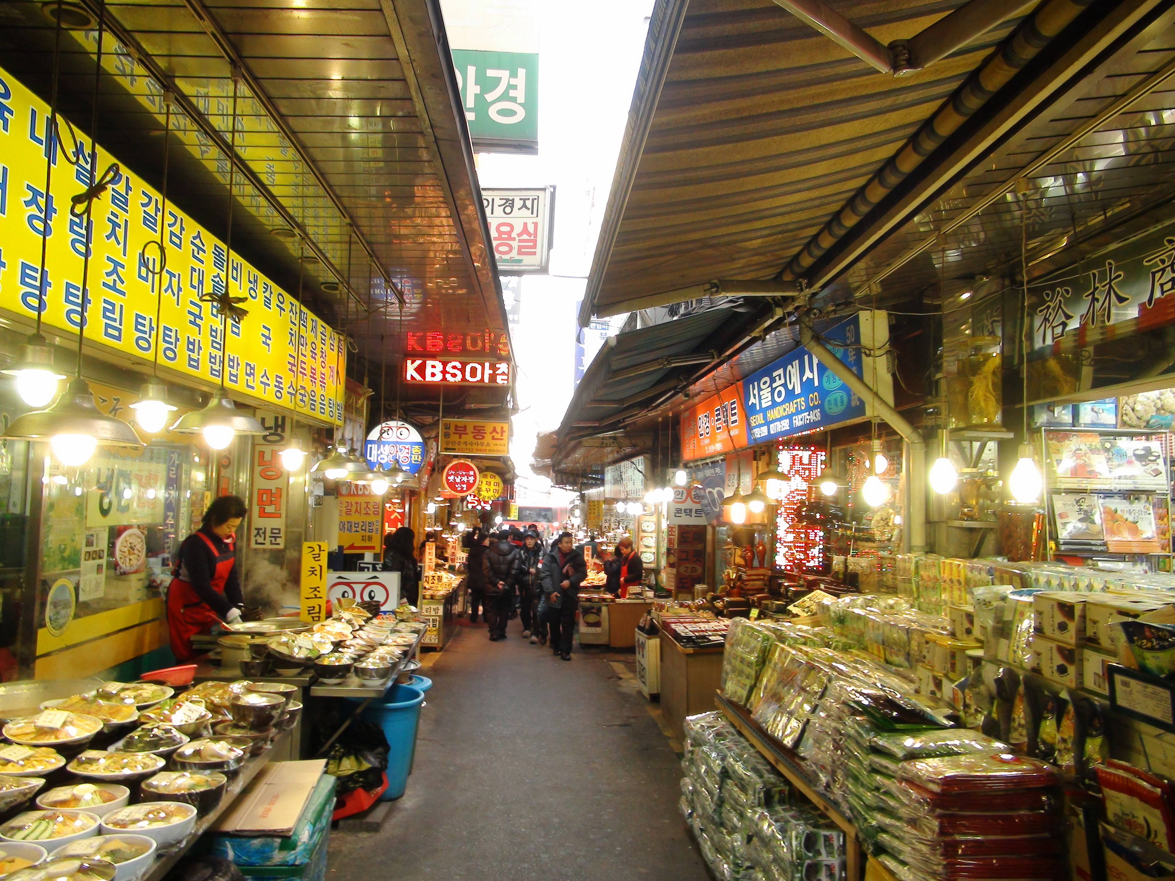 Namdaemun market restaurants street